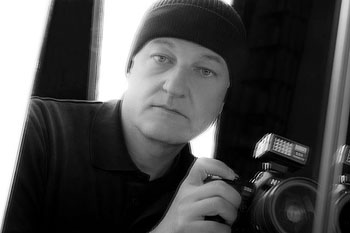 Selfportrait of Titus G. Pandi